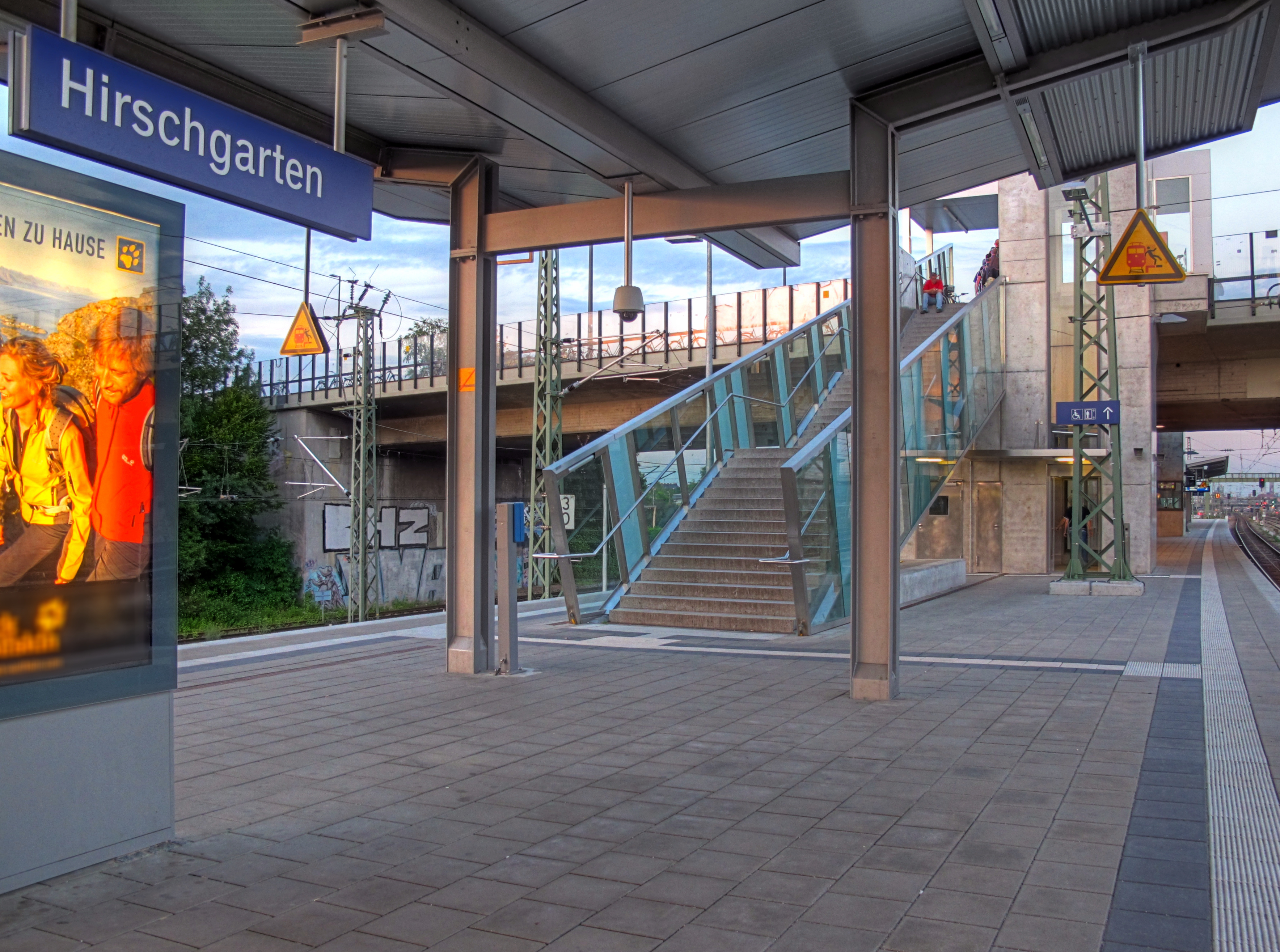 Germany, Bavaria, Munich, S-Bahn Station, "Hirschgarten" (HDR-Image)